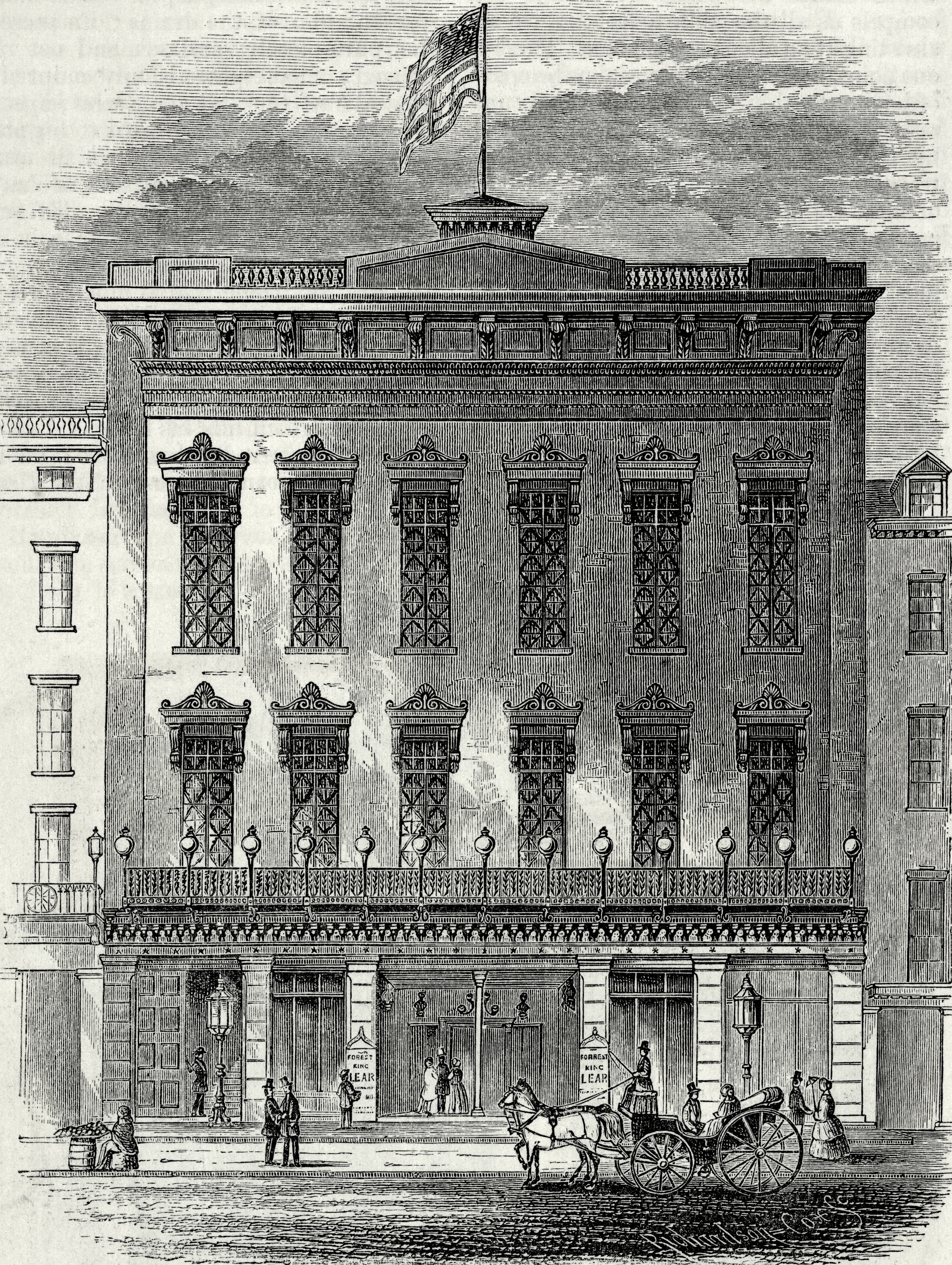 Broadway Theatre, located between Pearl and Anthony (now Worth) Streets. Opened 1847; closed 1859. Text (Putnam's), p. 150 col. 1.